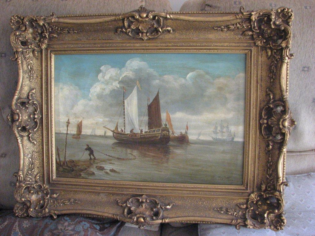 Unfinished (Onvolledig) painting by Simon de Vlieger, Dutch Golden Age Painter